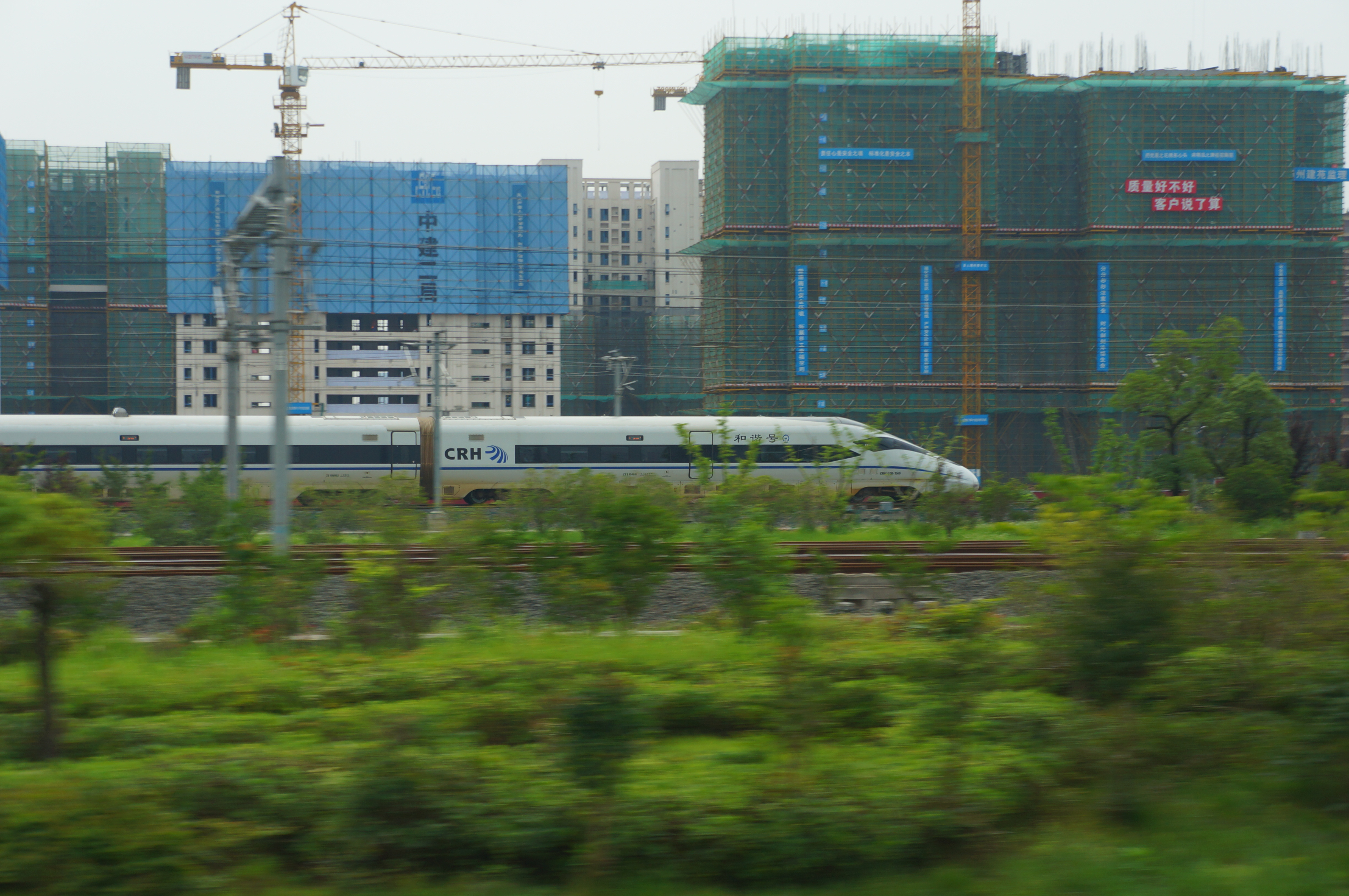 201606 G7080 enters into Nanjingnan Station